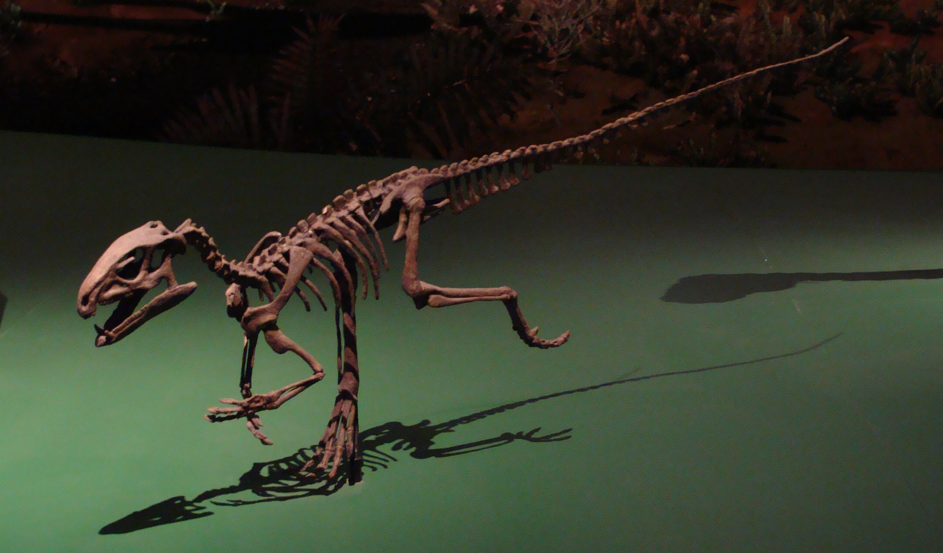 Pisanosaurus on Display at the Royal Ontario Museum.